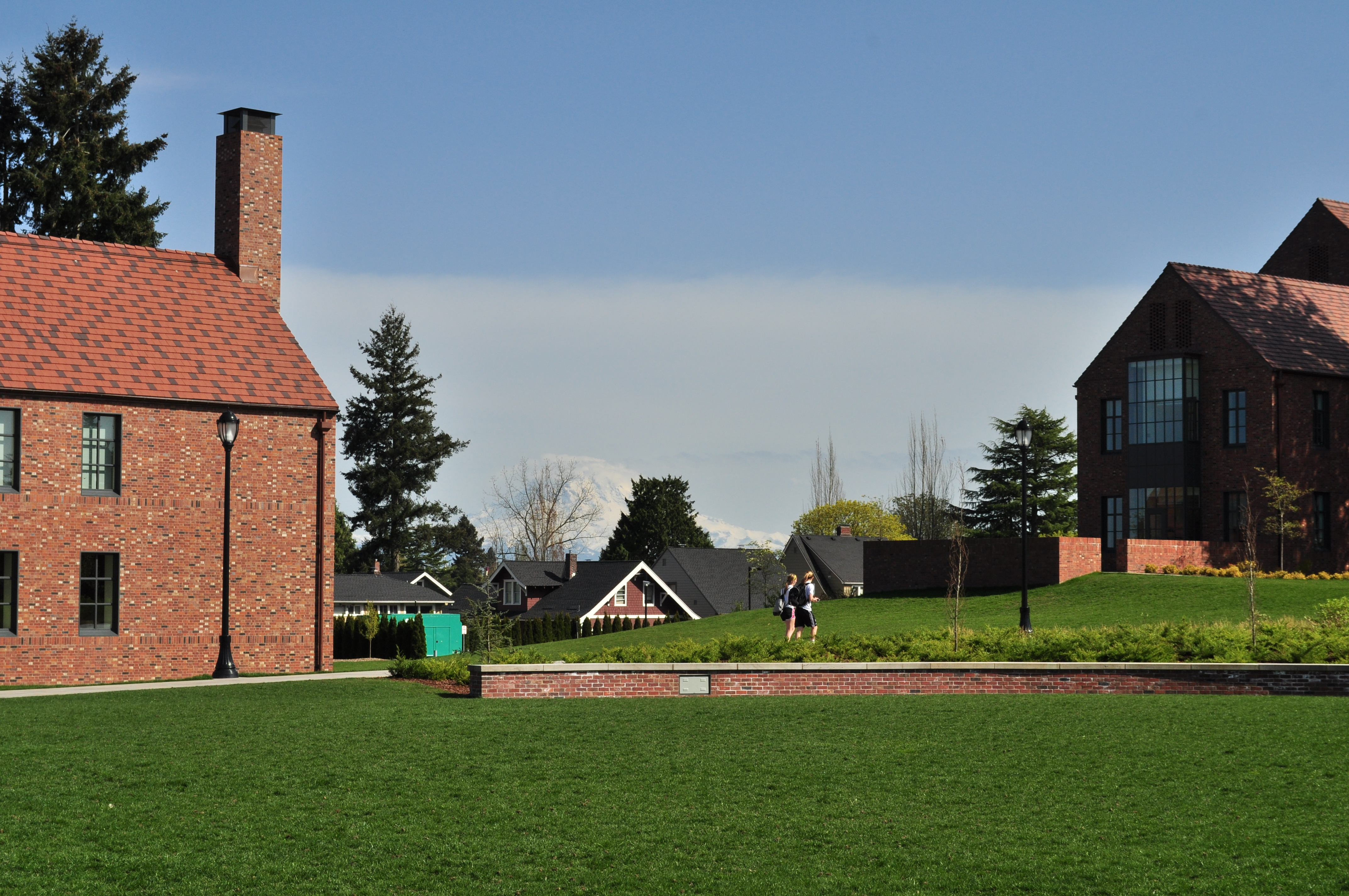 Mount Rainier seen from the University of Puget Sound, Tacoma, Washington.